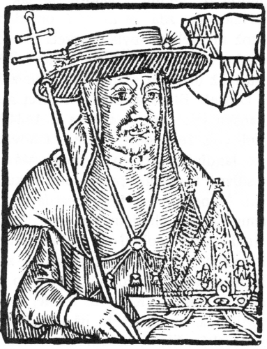 Bishop Jan XII. Železný